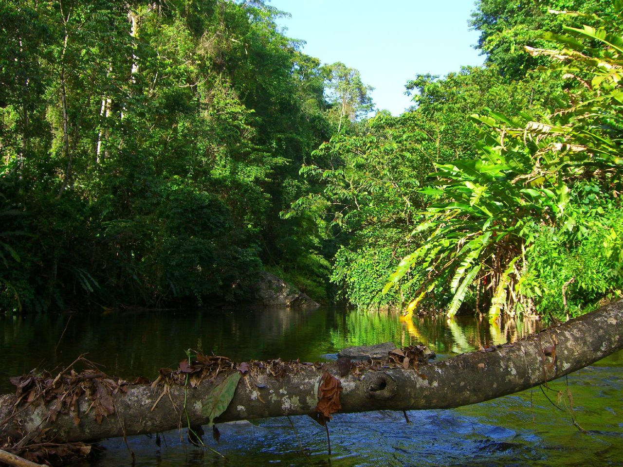 The river that the town is named after.